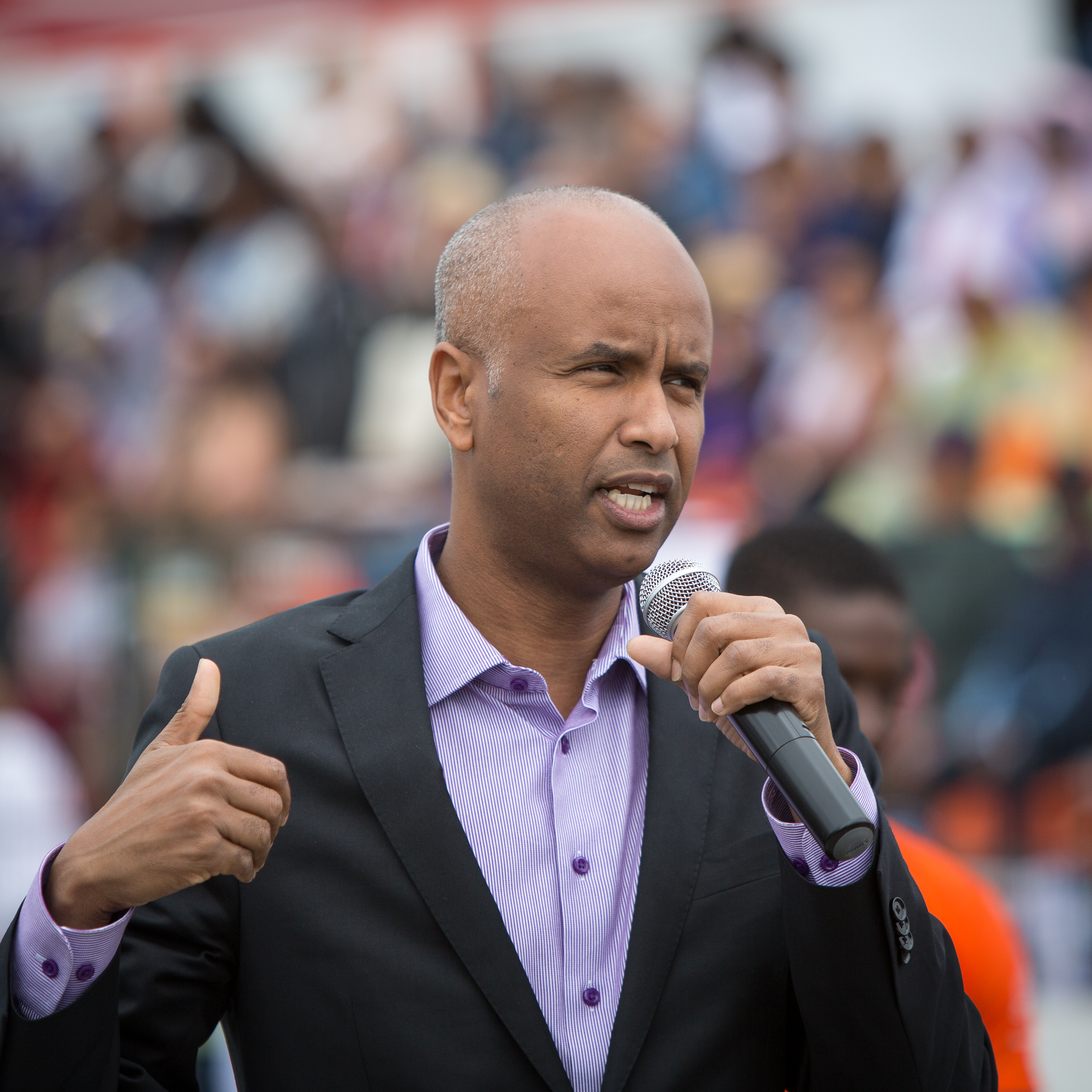 Immigration minister Ahmed Hussen at the Toronto Caribbean Carnival in 2017